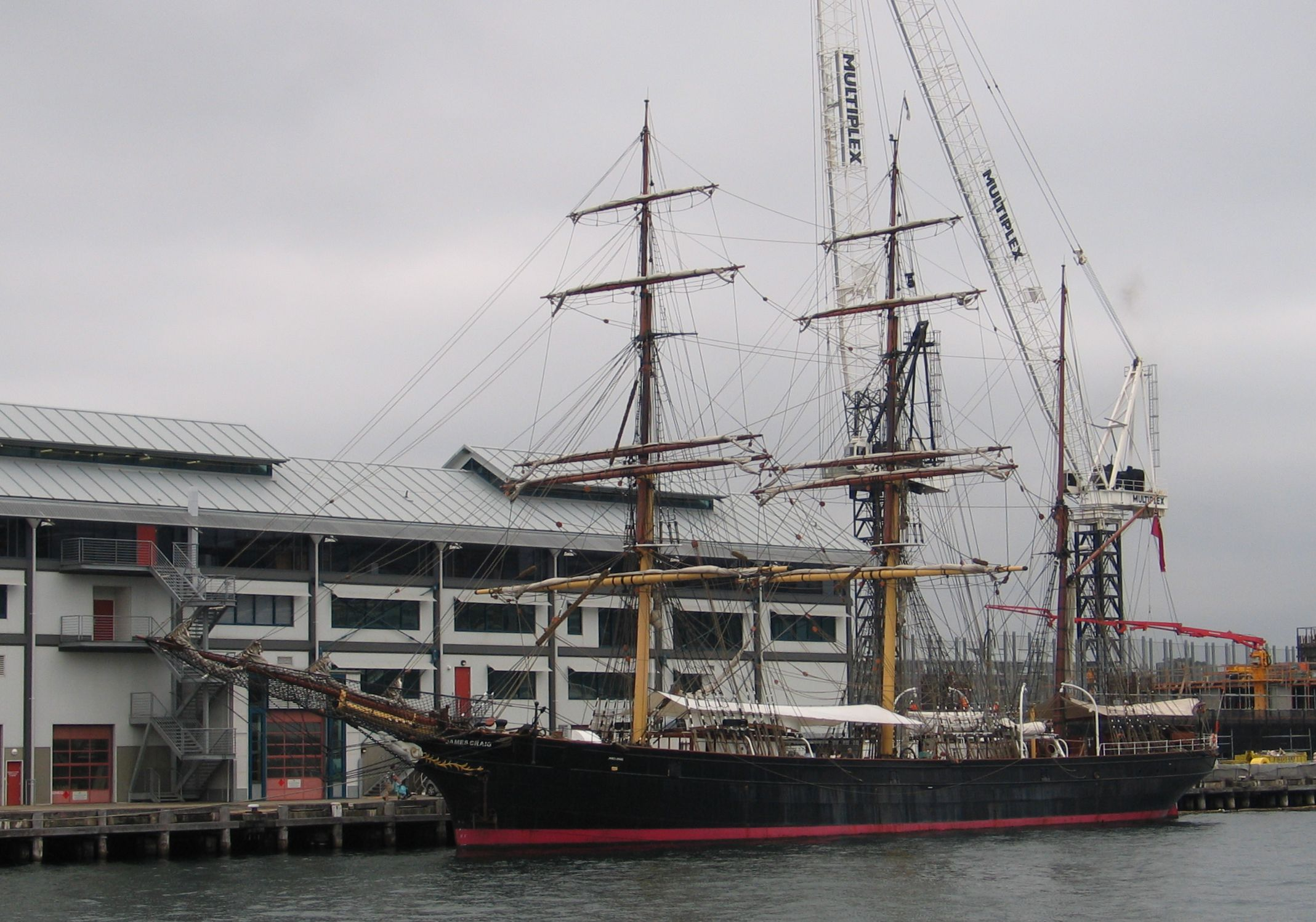 James Craig barque at the Australian National Mairitme Museum, Sydney, NSW, Australia.